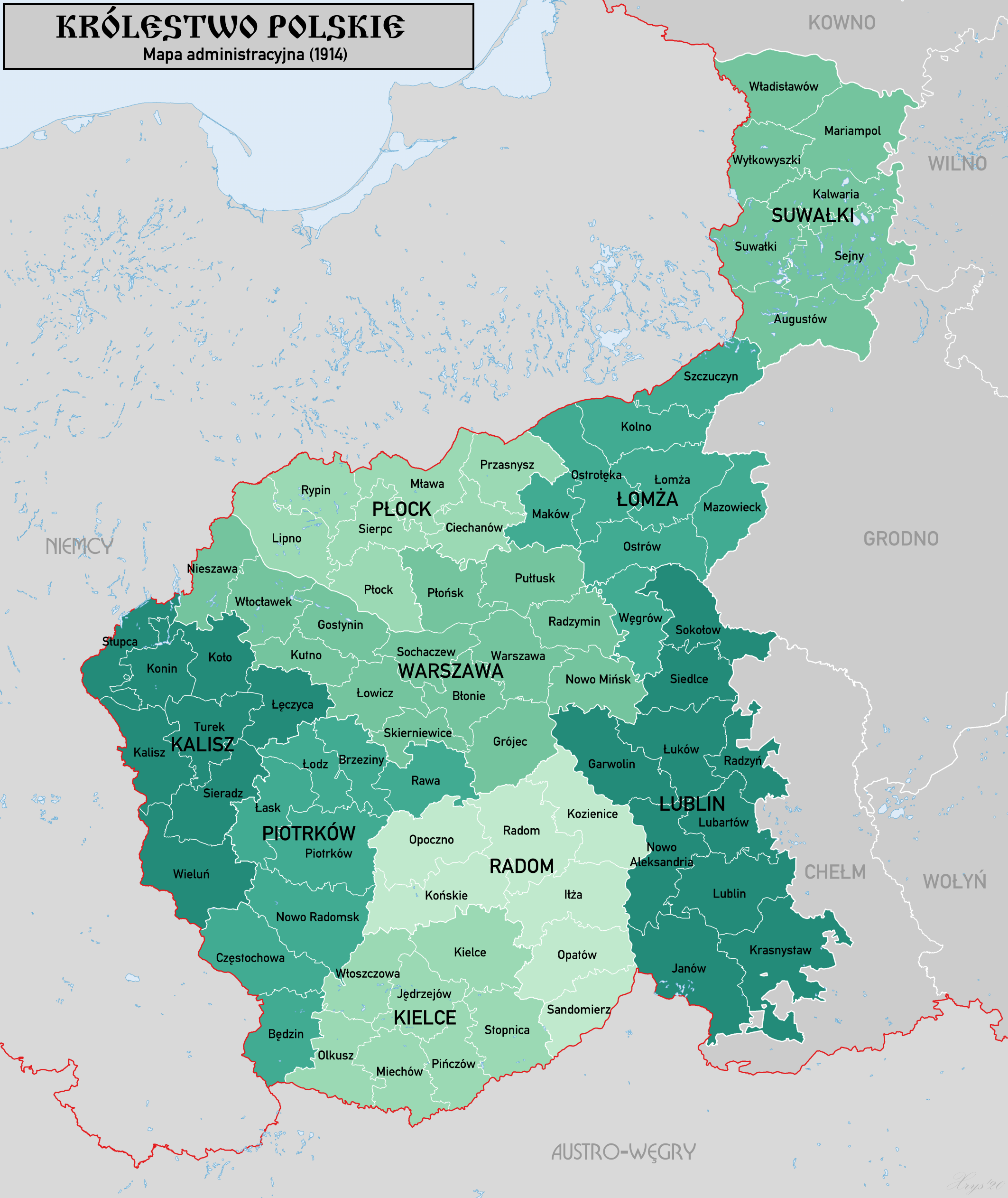 Polish language map of Congress Poland of the Russian Empire in 1914, showing the Governorates and Districts. Source Map Data: Специальная карта европейской России (1:420k), Ubersichtskarte von Mitteleuropa (1:300k), Mapa Krolestwa Polskiego (1:504K), courtesy of